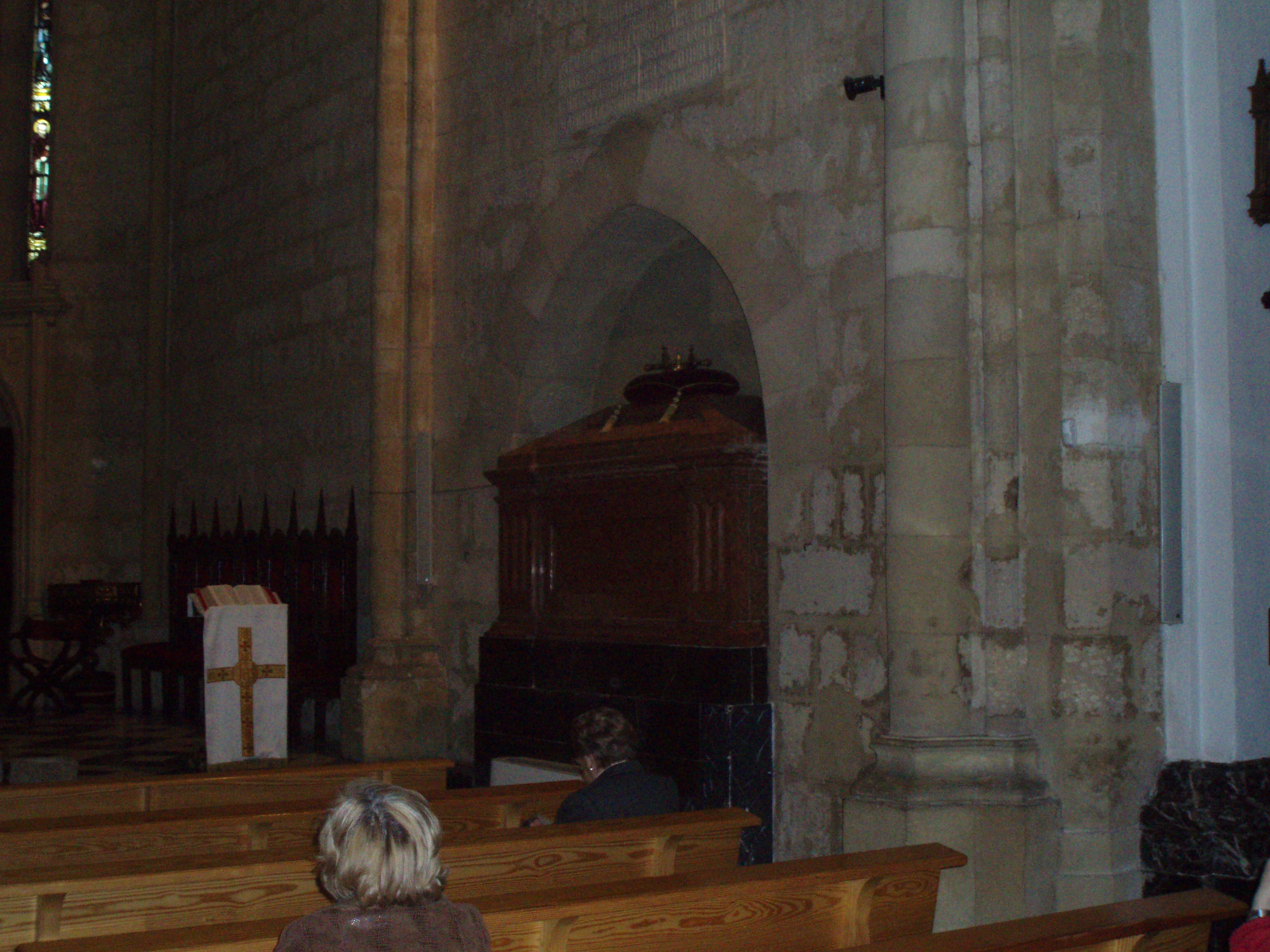 Tomb of the king Alfonso XI of Castile (1311-1350). Church of Saint Hippolytus of Córdoba, (Spain).